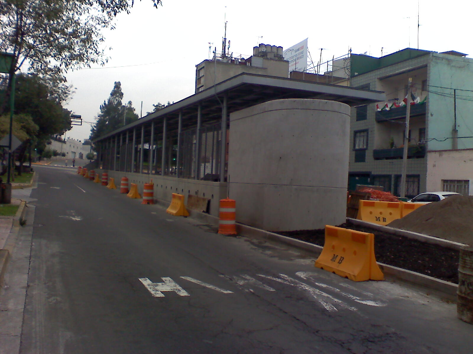 Parque Lira Station under construction (September 2008)